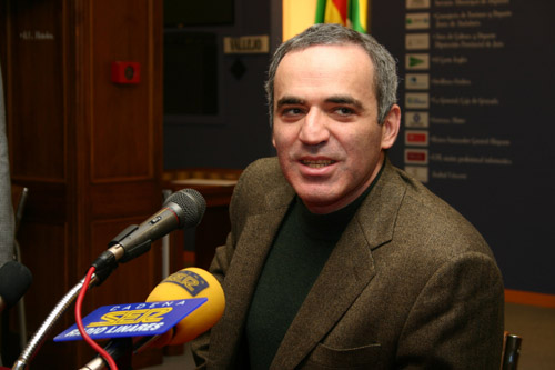 Garry Kasparov